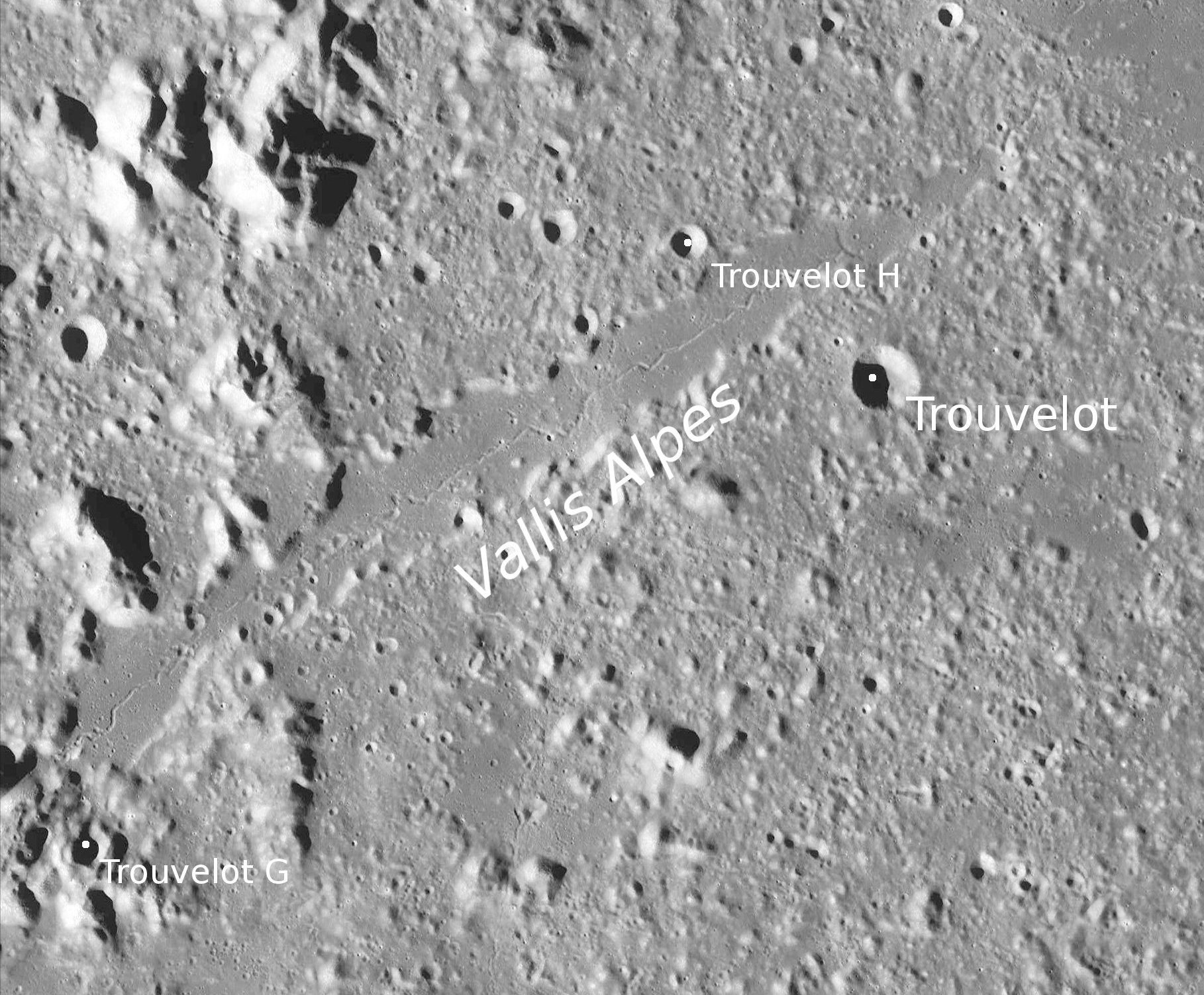 Vallis Alpes with crater Trouvelot (detail of LRO - WAC global moon mosaic; Mercator projection)